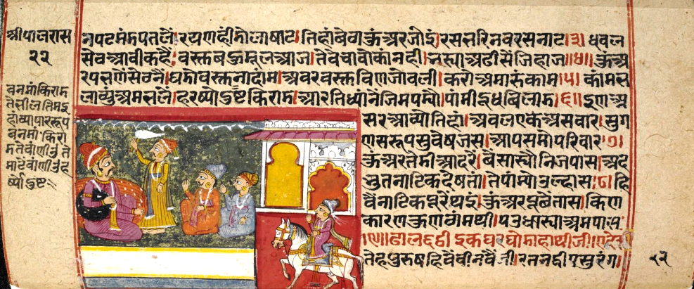 legendary king Shripal of Jainism published in manuscript Shripal Raas dated 17th to 18th centuries, digitalised by The British Library Board